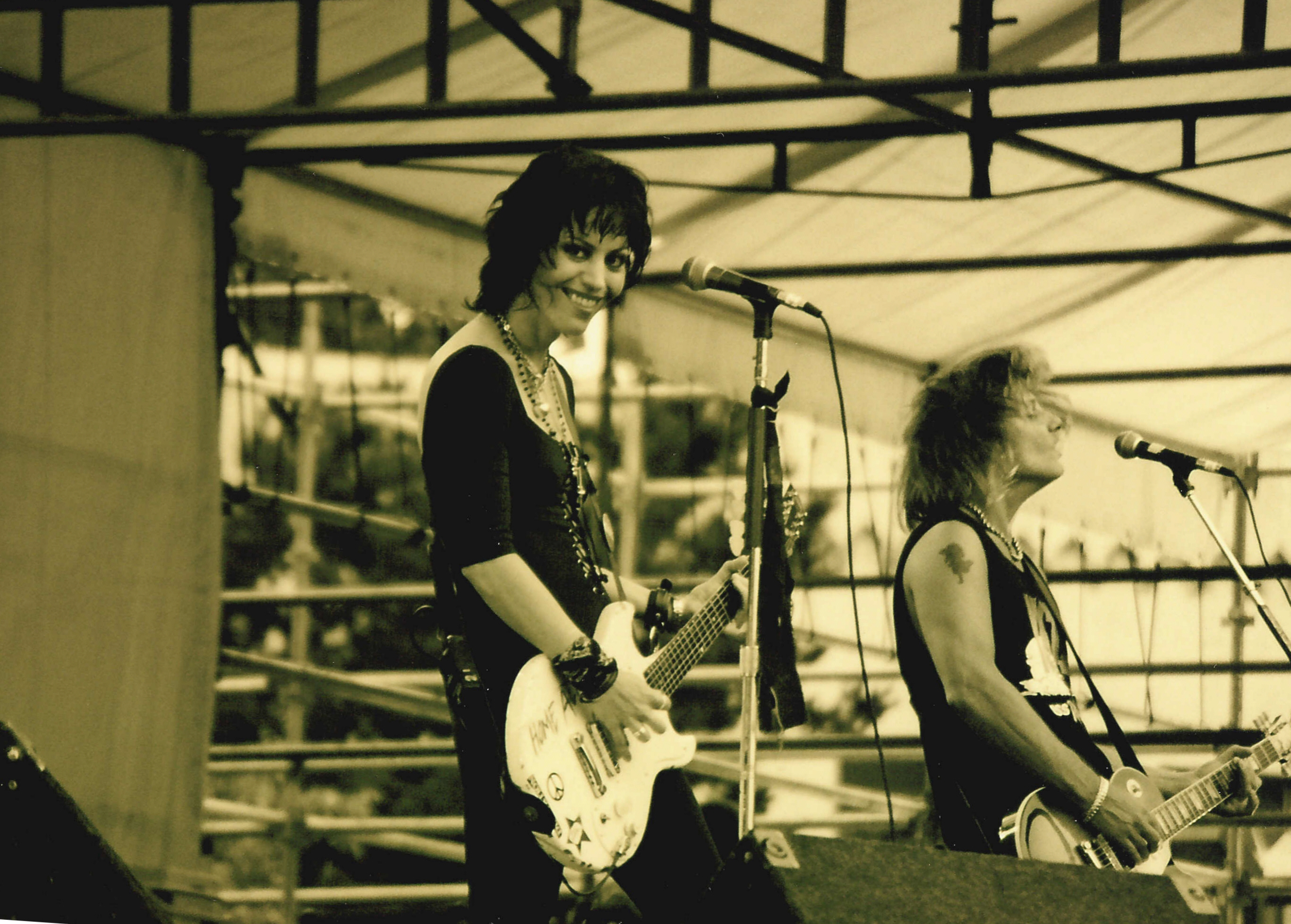 Joan Jett, Bumbershoot festival, Seattle, Washington, 1994.